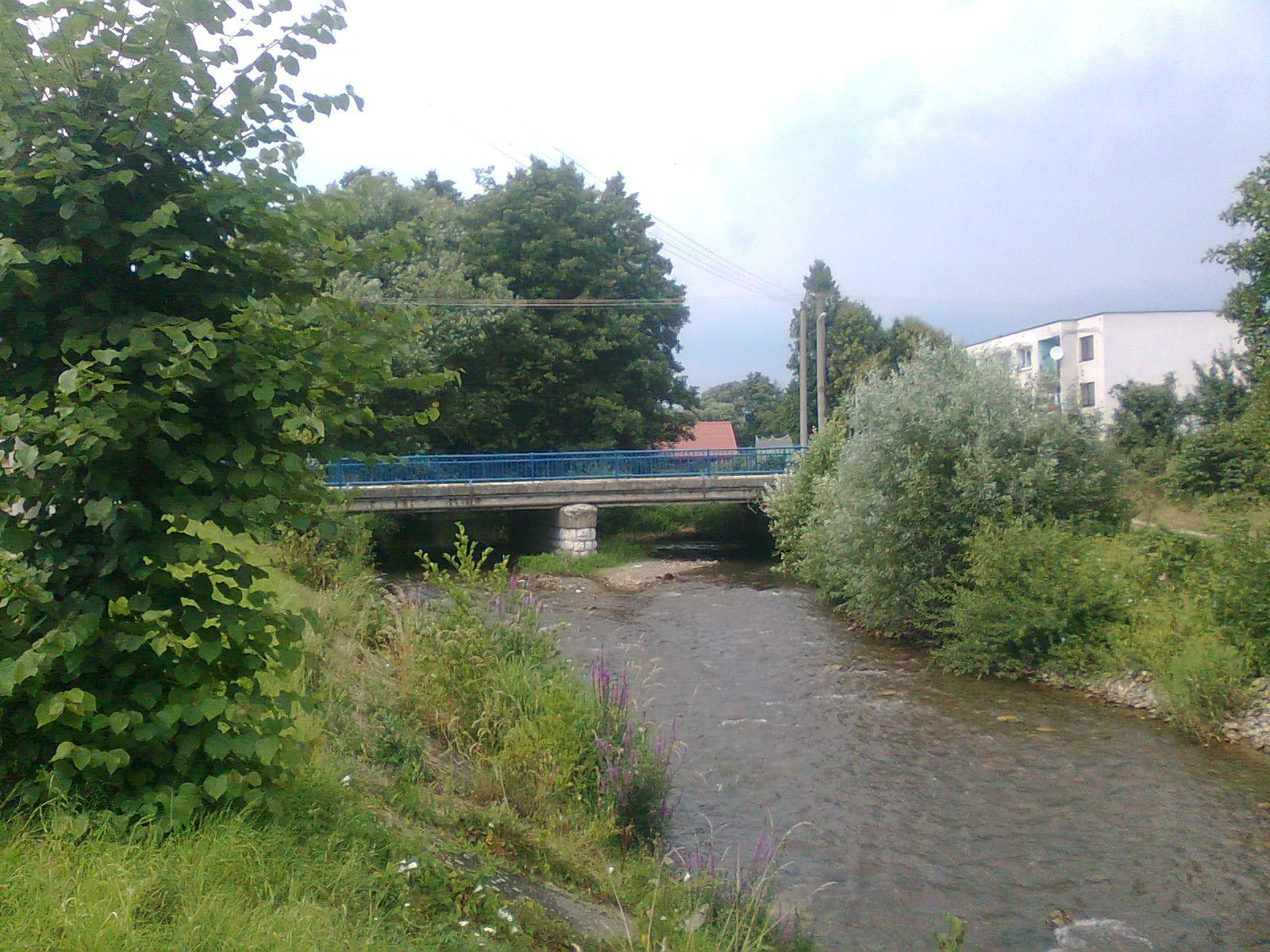 river Štítnik in city Štítnik, district Rožňava, Slovakia